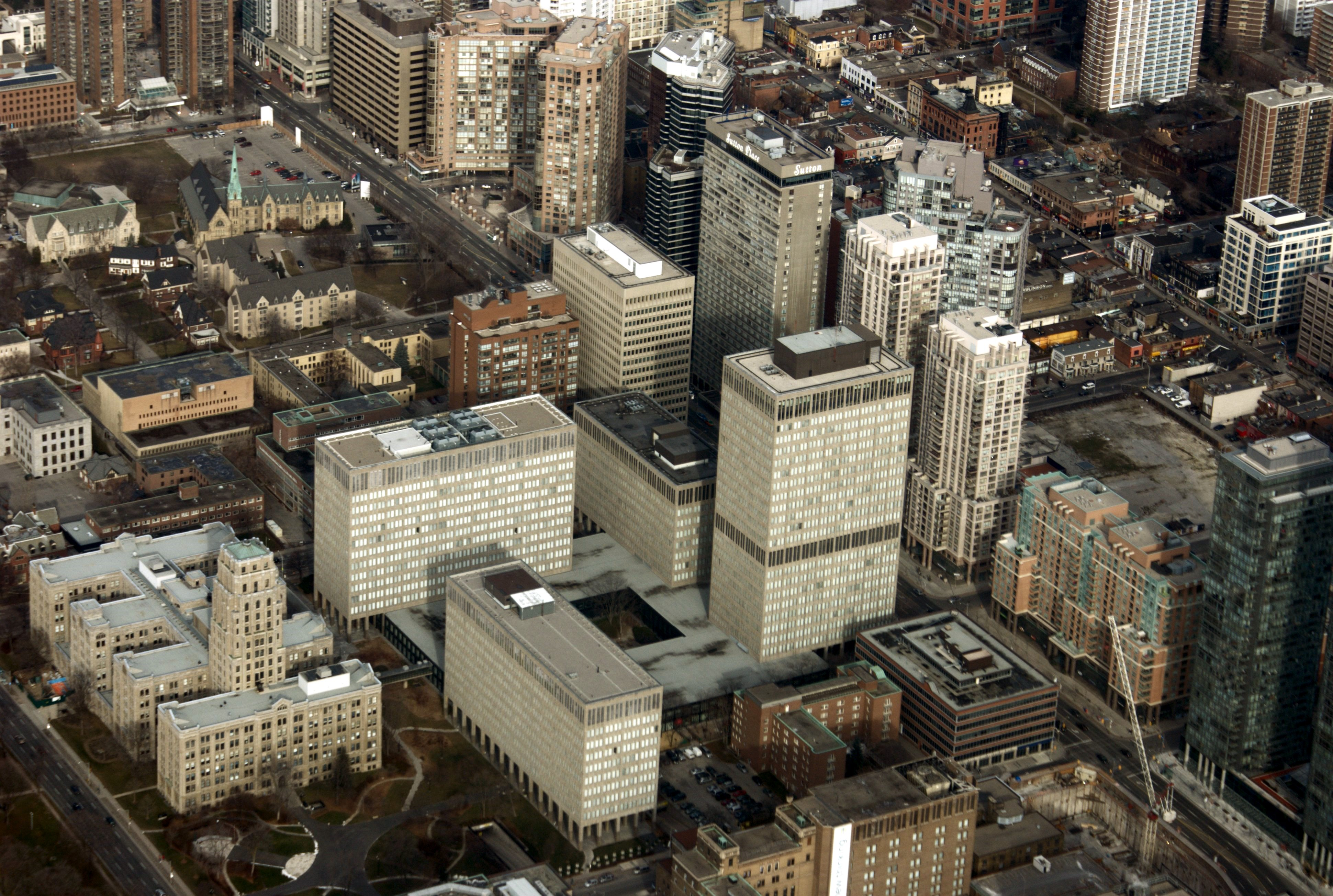 The Whitney Block to the left with the (clockwise from top left) Ferguson, Hearst, Mowat, and Hepburn Blocks with the two story Macdonald block connecting the four together. Taken from an airplane 2500ft above.